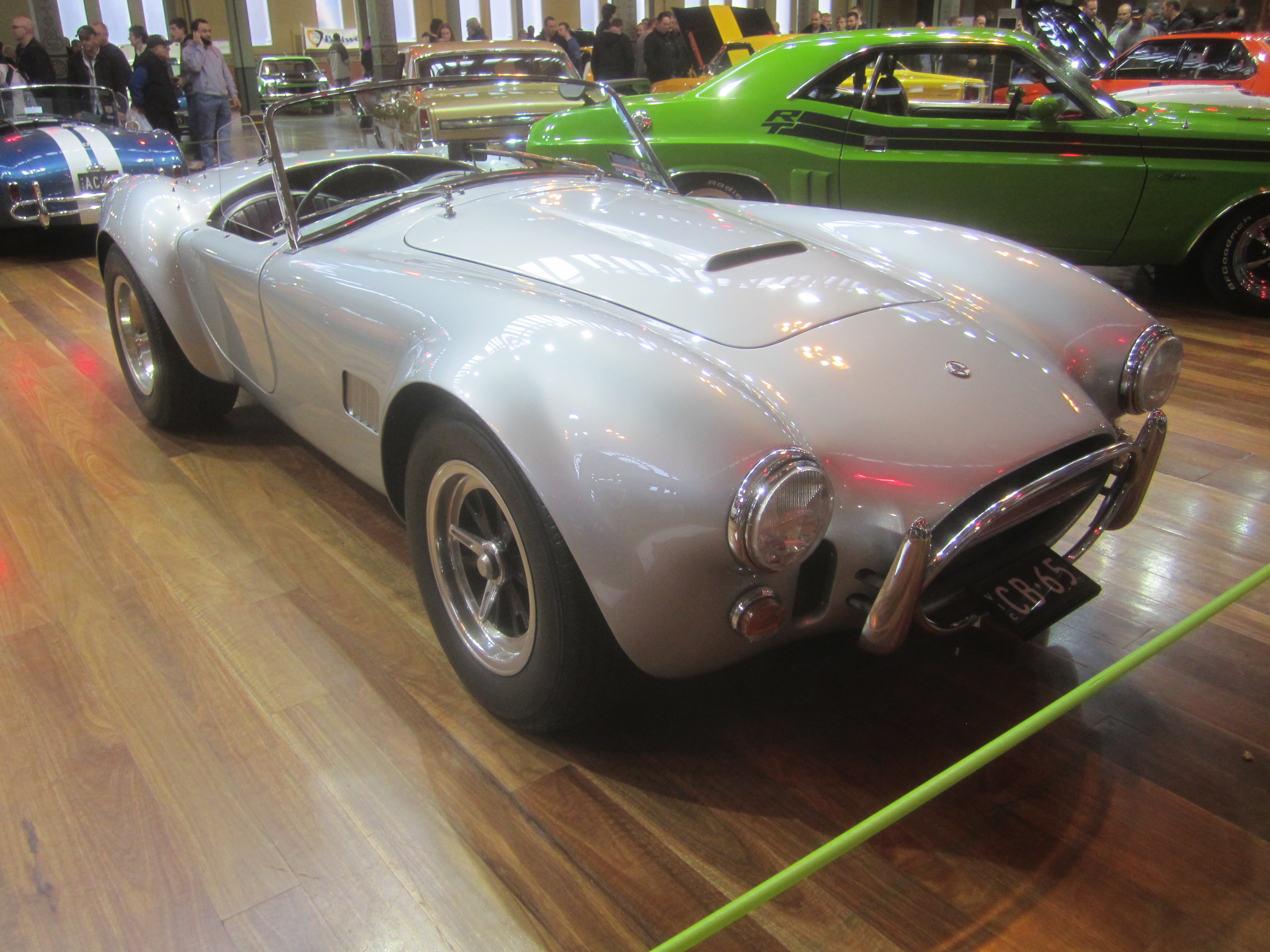 AC, an English company, started building the Ace in 1953 with the Bristol 6 cyl engine, when production of this engine ceased in 1961, they used the 2600cc Ford Zephyr engine but with alloy head and triple weber carbs, this proved unreliable so went to Carroll Shelby in America and then started using Ford V8s. . So the 1st AC Cobra, in 1962 had the 260 cu in Ford V8 In 1963; capacity was up to 289 and the cars now had rack and pinion steering. To become more competitive with the Corvette, the later cars, from 1965-67; got the big block 427 cu in Ford V8. Many companys world wide have been making relicas of this popular Roadster ever since.